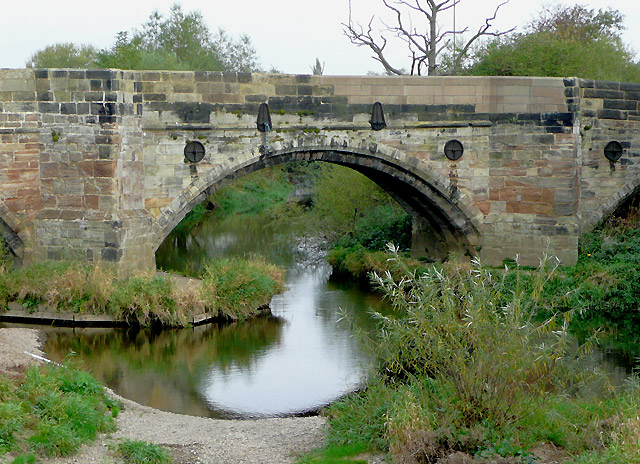 Bridge (detail) over the River Dove, near Burton-on-Trent. This fine stone road bridge used to carry the A38 road before the recent dual carriageway upgrades round Burton were constructed in 1967/8. Because the river was so low I was able to go right down onto the part of the bed which is submerged to varying degrees whenever heavy rain has fallen. The arch shown is on the right in this picture showing the river in a very state.